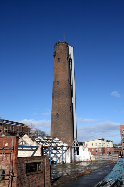 Lead Shot Tower, Boughton, Chester